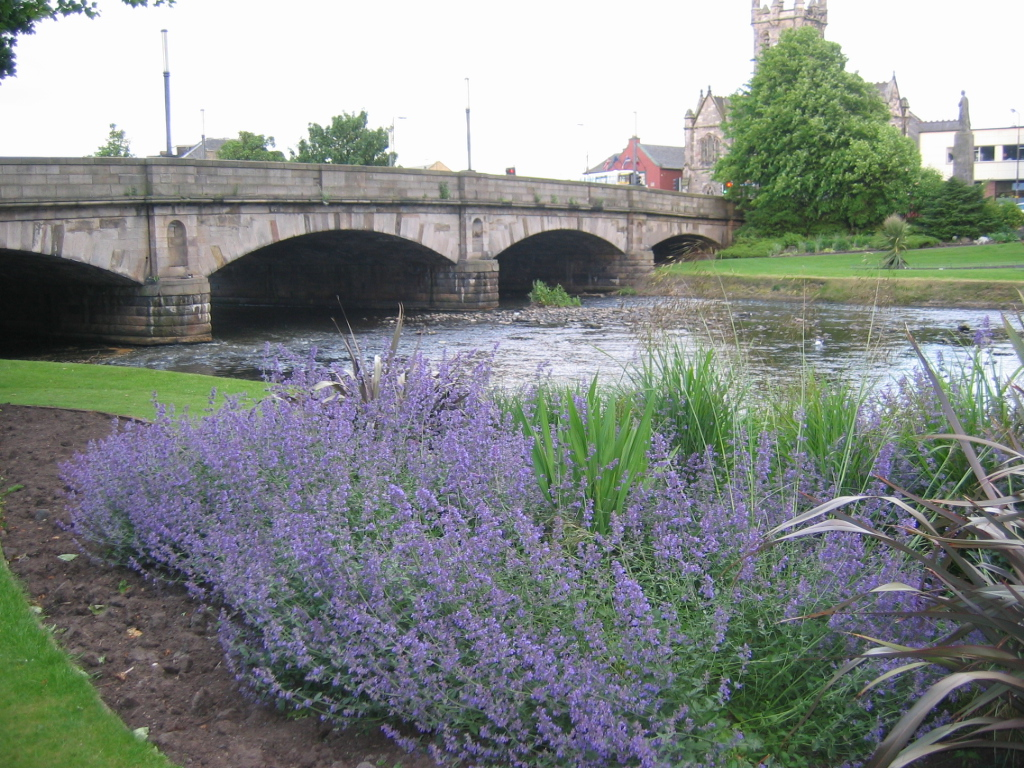 Town bridge, River Esk, Musselburgh, East Lothian, Scotland